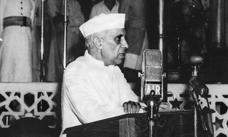 Jawaharlal Nehru gives his "tryst with destiny" speech at Parliament House in New Delhi in 1947